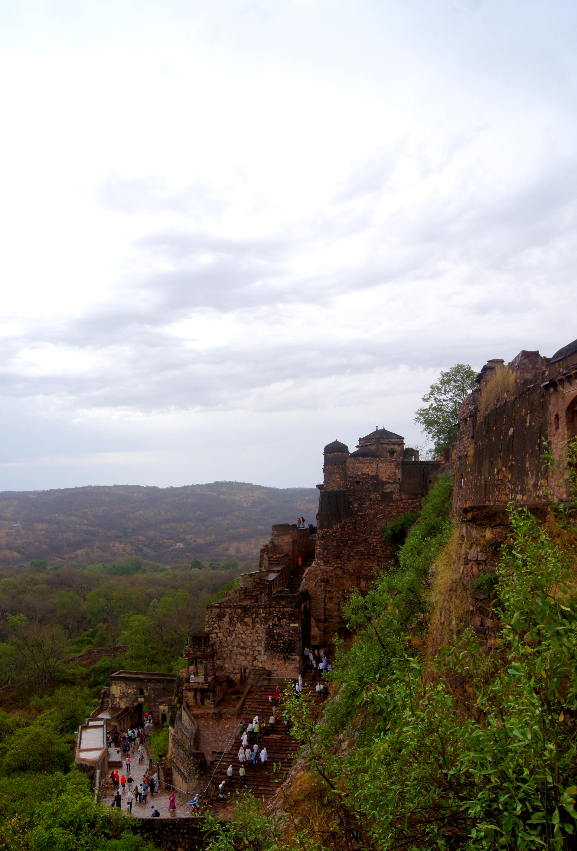 Ranthambhore Fort, Sawai Madhopur (Rajasthan)